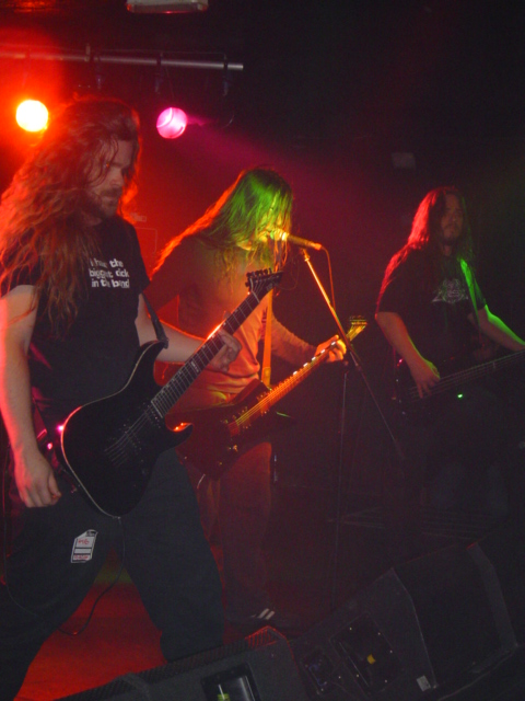 Hypocrisy live in Glasgow, Scotland 2006